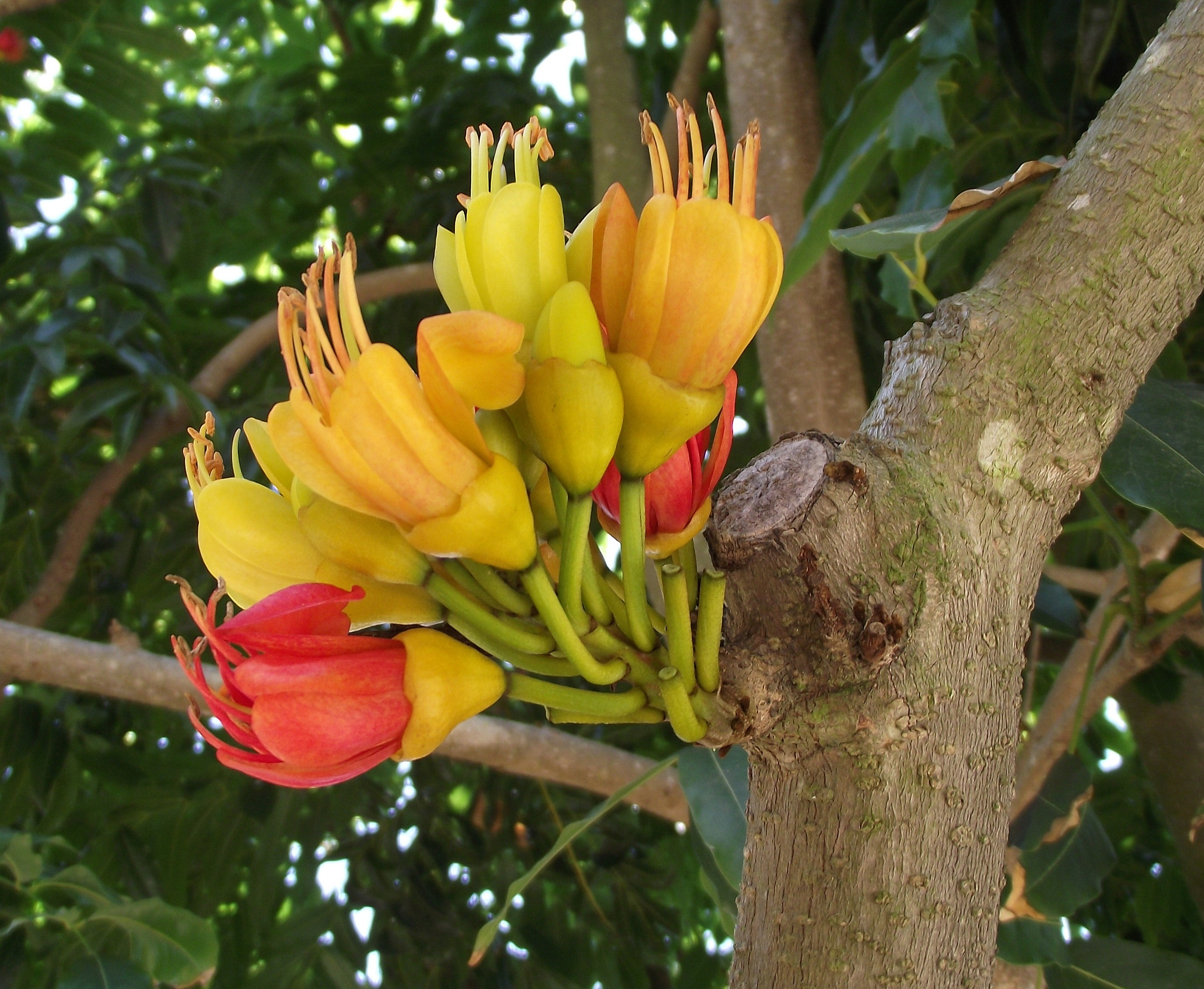 Castanospermum australe at the San Diego Botanic Garden, Encinitas, California, USA. Identified by sign.